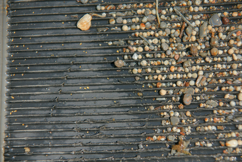 Gold